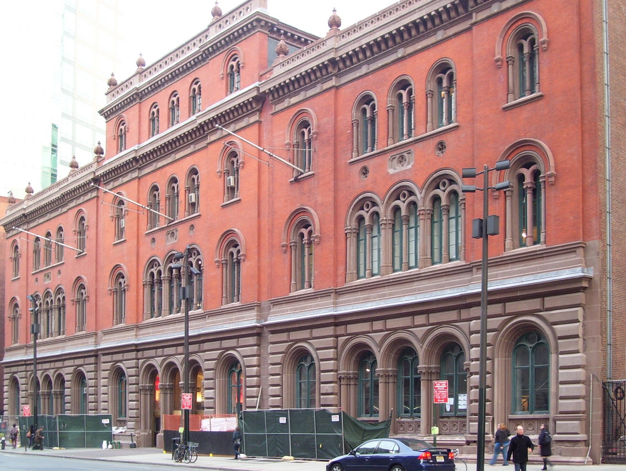 The Public Theater of the New York Shakespeare Festival at 425 Lafayette Street in the former Astor Library Building. The building was constructed between 1853 and 1881: the south wing (1849-1853) was designed by Alexander Saeltzer, the center section (1856-1869) by Griffith Thomas, the north wing (1879-1881) by Thomas Stent. The conversion into a theatre center occured in 1967-1976, designed by Giorgio Cavaglieri. Between library and theatre it was the Hebrew Immigrat Aid Society. The style of the building is Rundbogrnstil, a German version of Romaesque Revival. (source:AIA Guide to NYC 4th ed.)